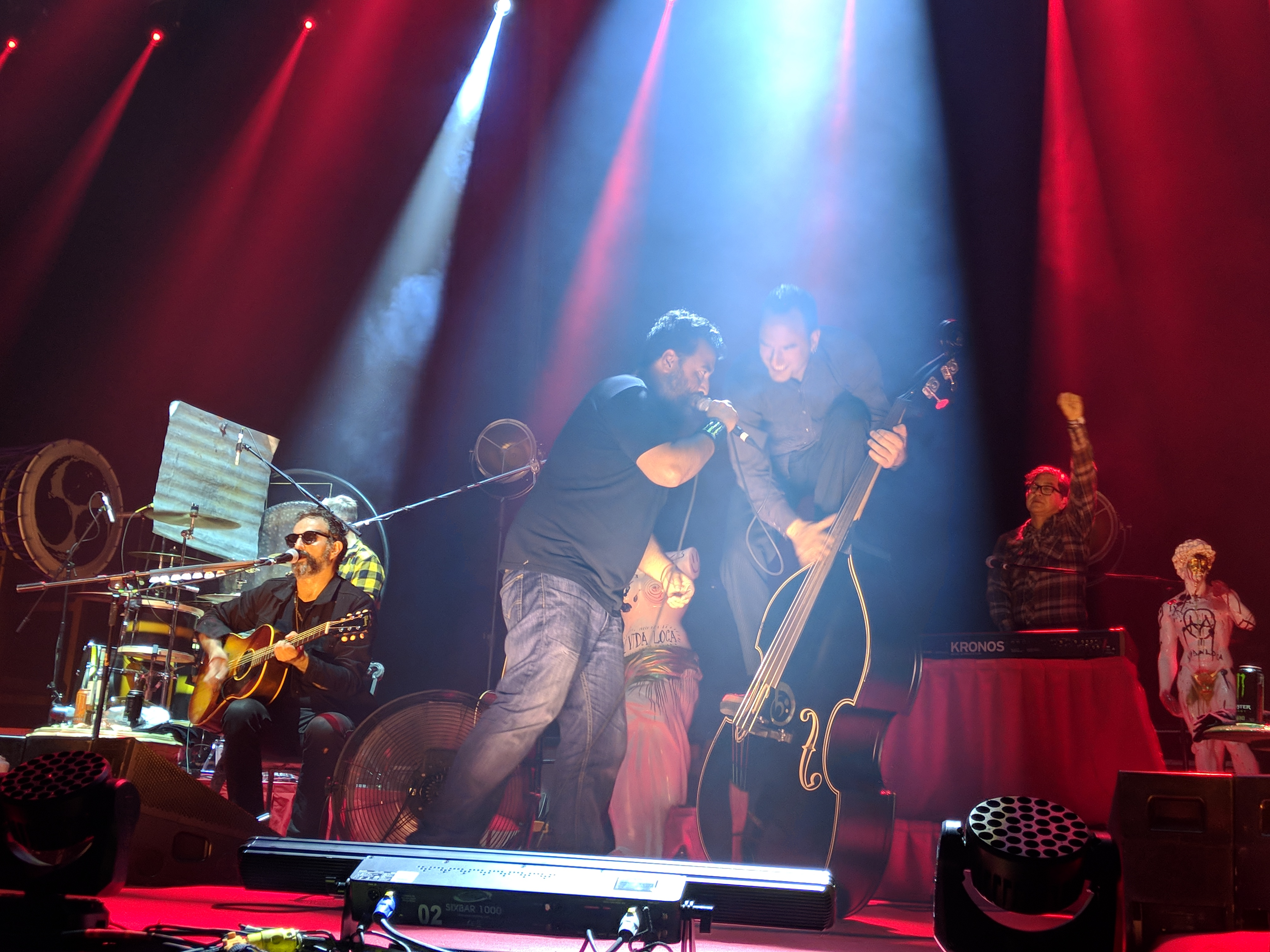 Стијеповић са Мани Марком (из групе Бисти Бојс) на промоцији MTV Unplugged албума групе Молотов у Пуебли 2019. године